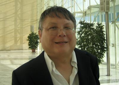 Picture of Lawrence Ein